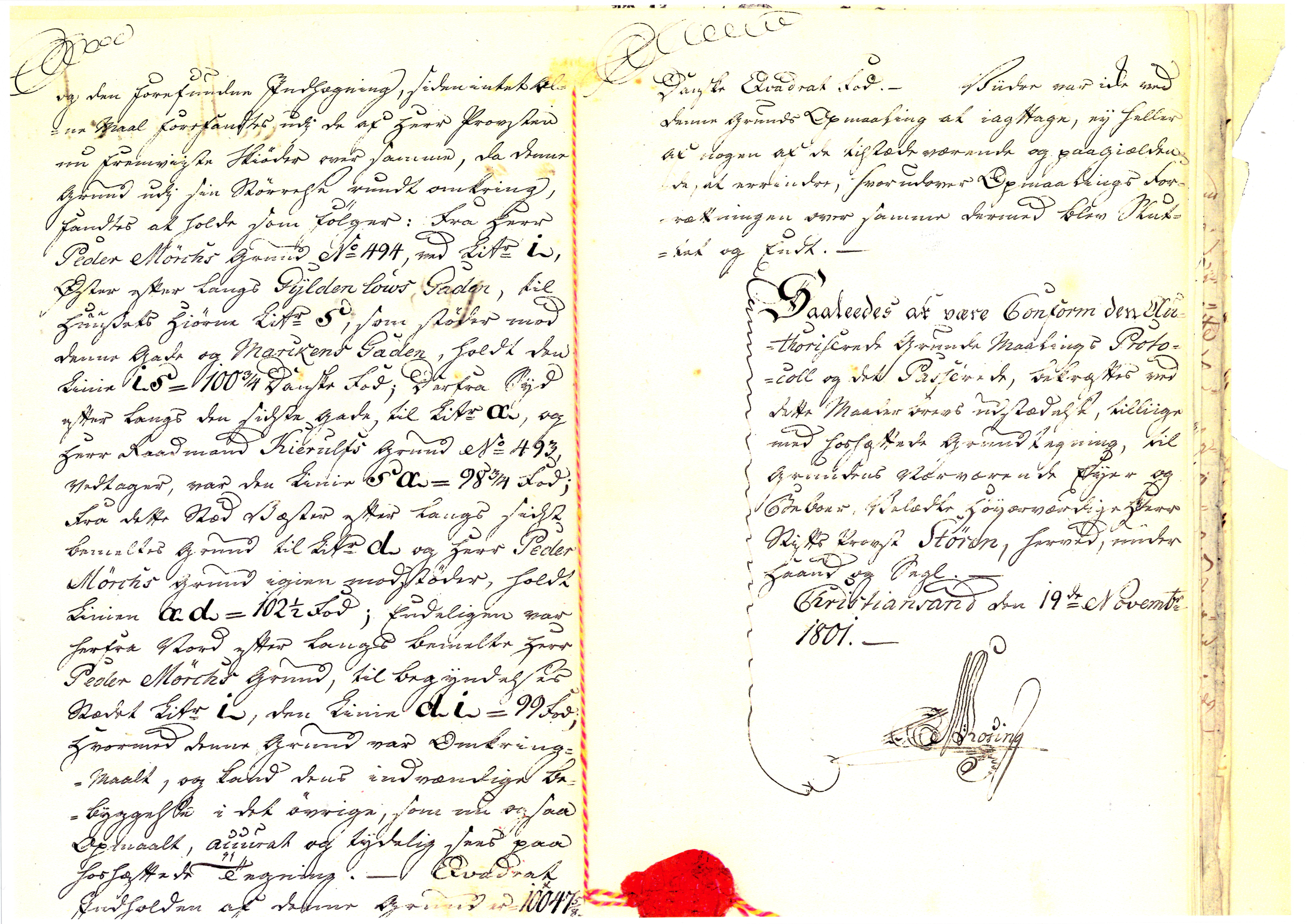 Old document (from 1793), with seal and seal-yarn.